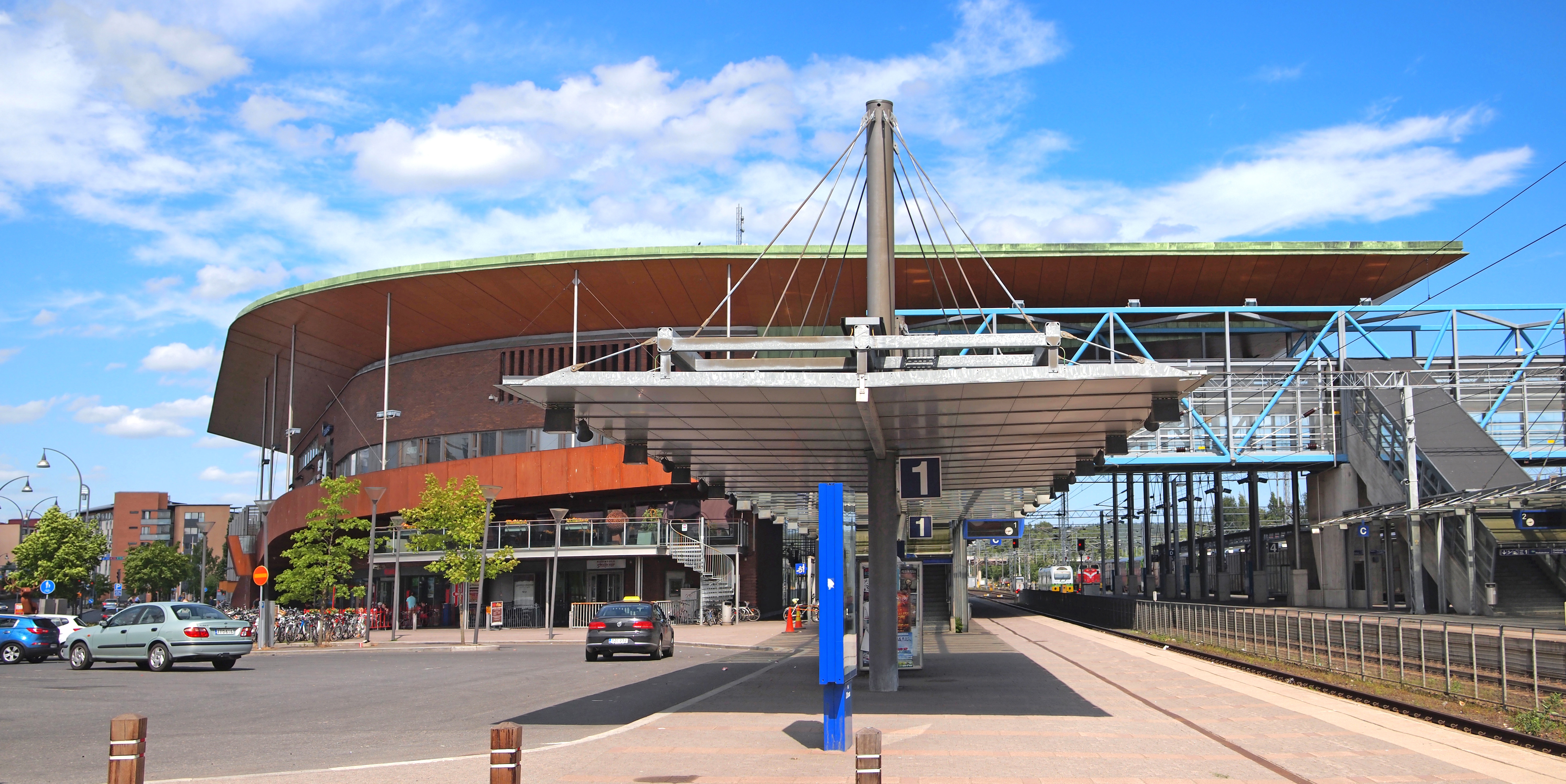 Travel centre of Jyväskylä.